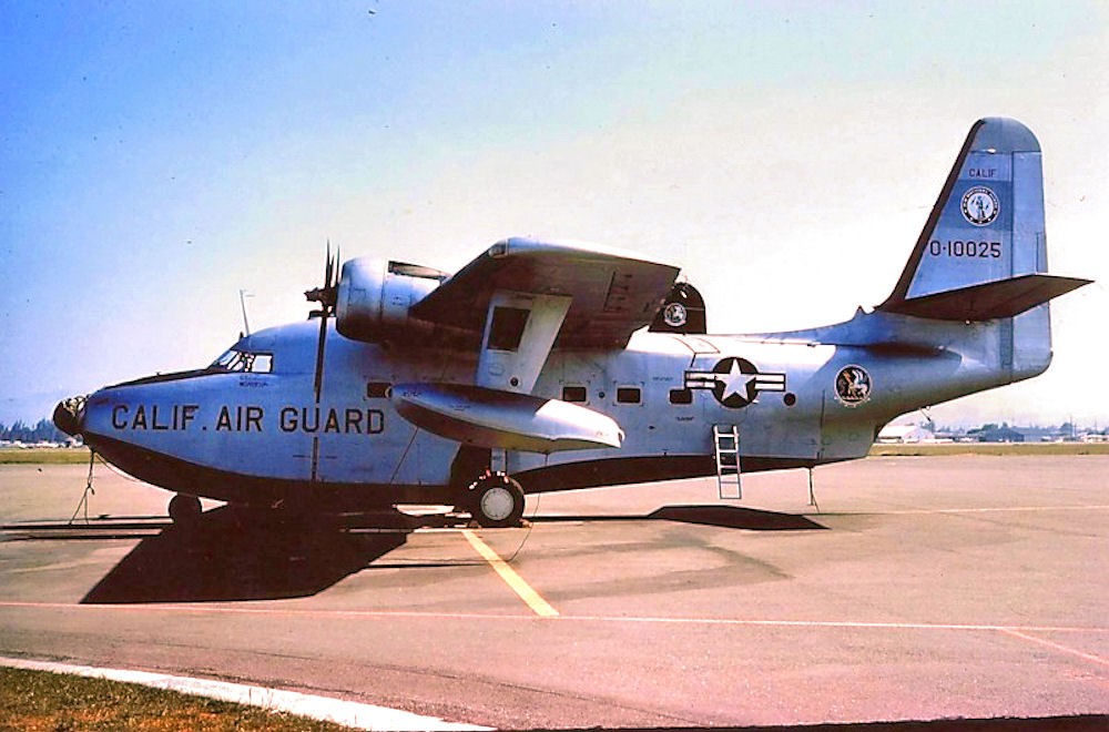 129th Air Commando Squadron - Grumman SA-16A Albatross 51-0025